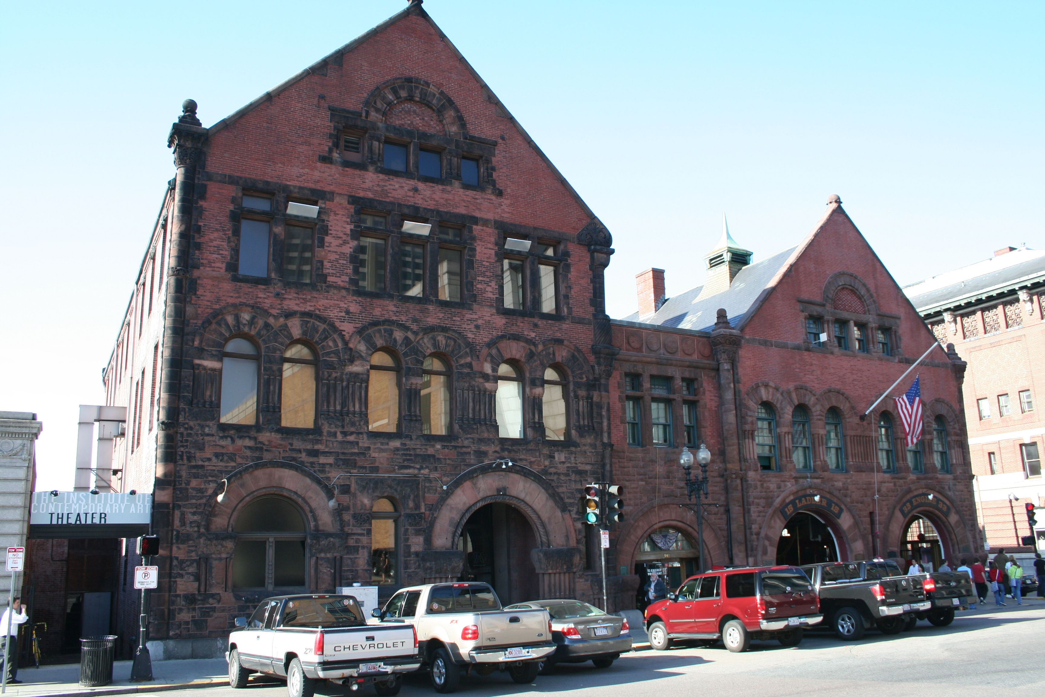 955 Boylston Street, Back Bay, Boston, Arthur H. Vinal, architect (1887)